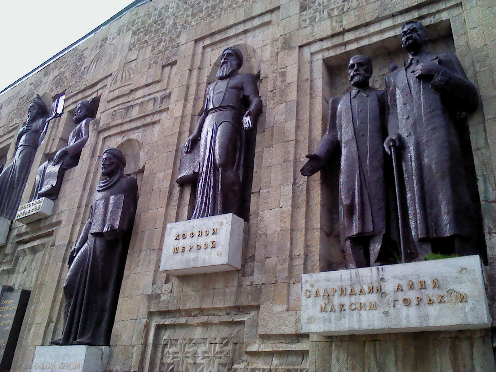 Tajik Writers Union building, Dushanbe